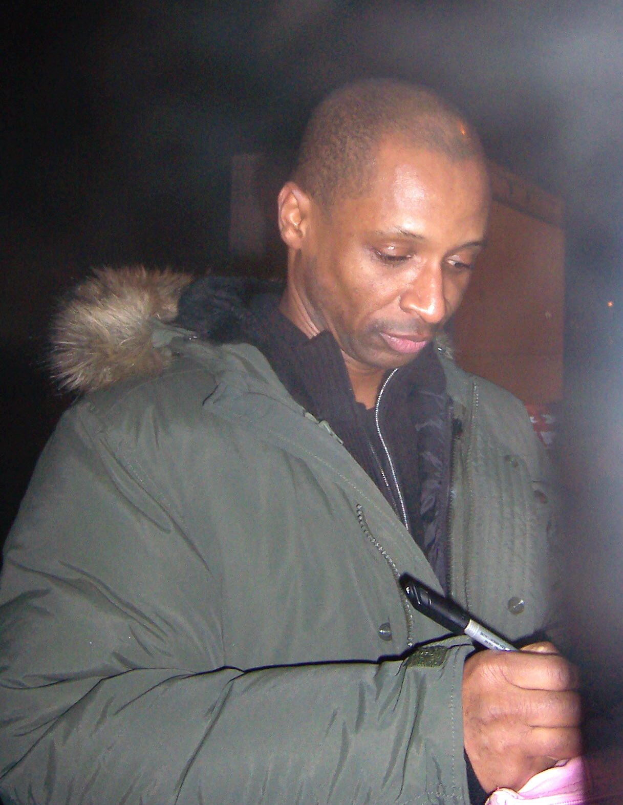 Andy Abraham at the X Factor Tour in Newcastle.